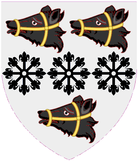 Shield of arms of The Lord Borwick